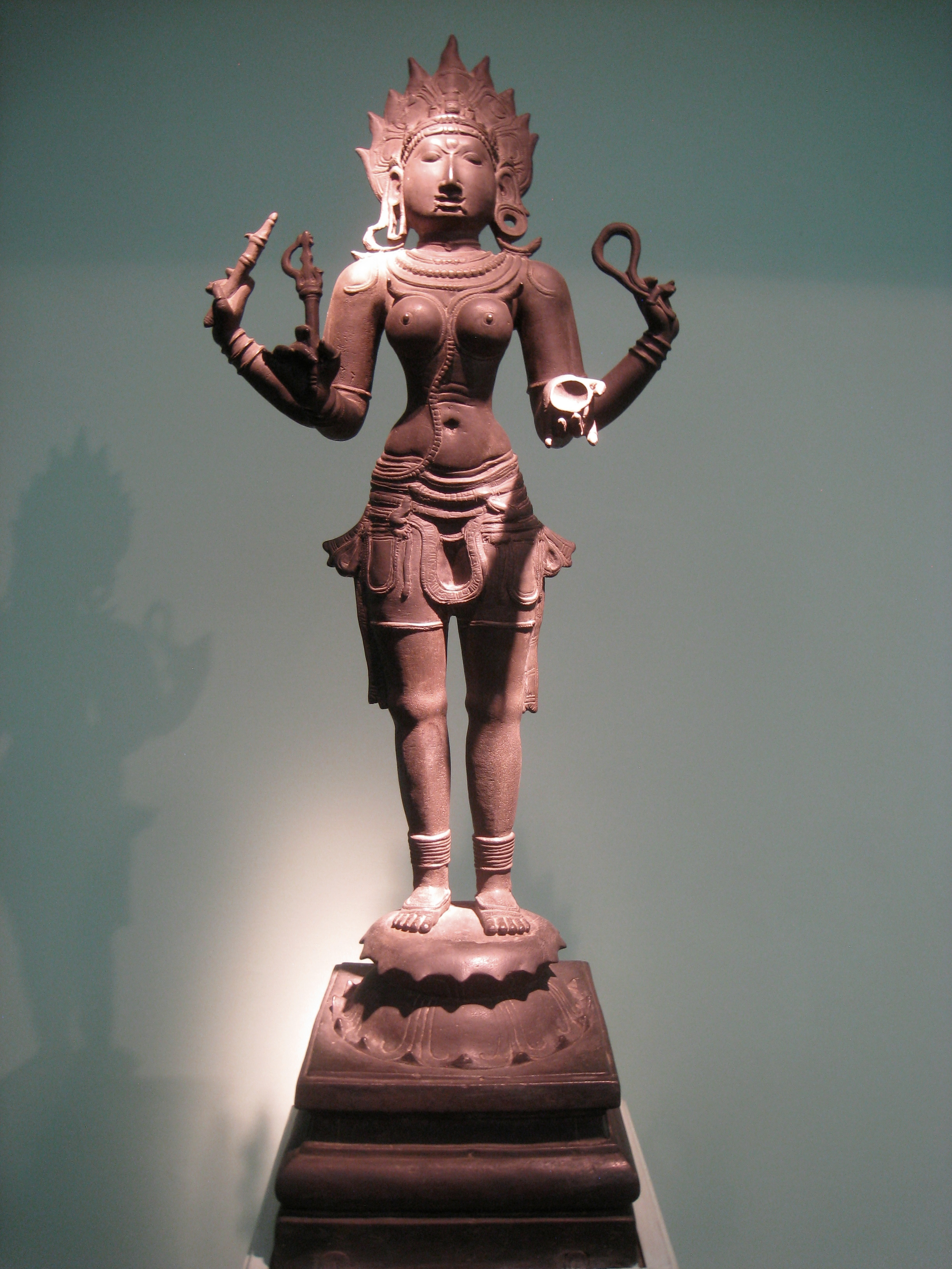 Bronze sculpture in National Museum, New Delhi, India.